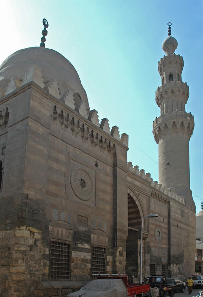 Aqsunqur Mosque, or Blue Mosque. Egypt